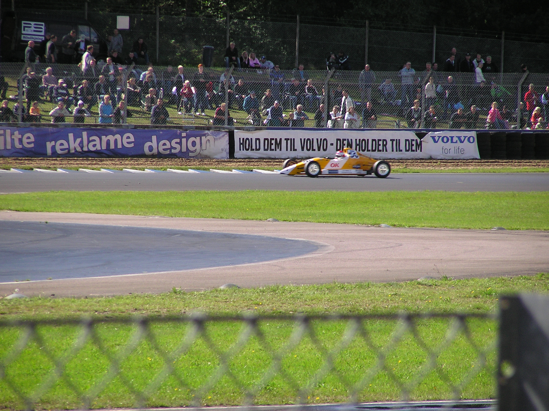 A Formula Ford car in the 2006 Danish Formula Ford Championship season at Jyllandsringen.